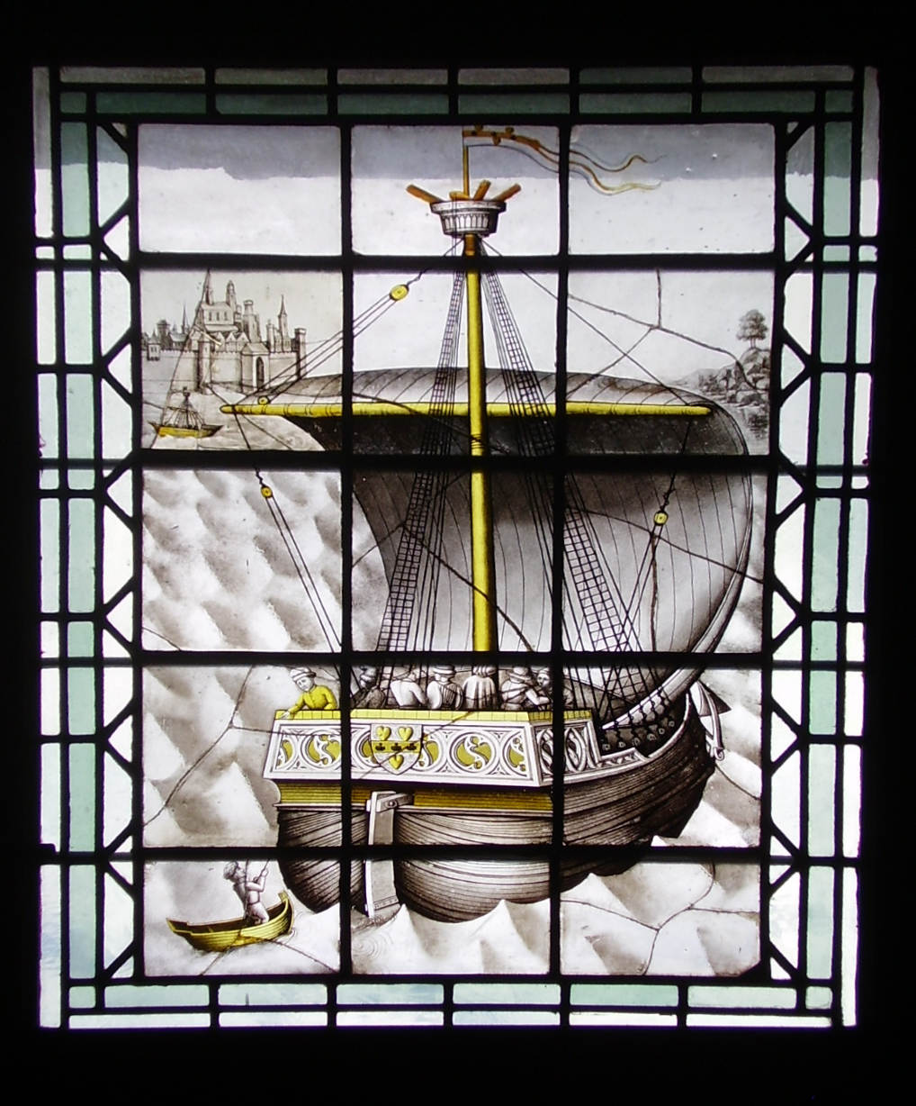 Stained glass window with a boat used by Jacques Coeur for international trade. "Galées" room, Jacques Coeur Palace, Bourges, France